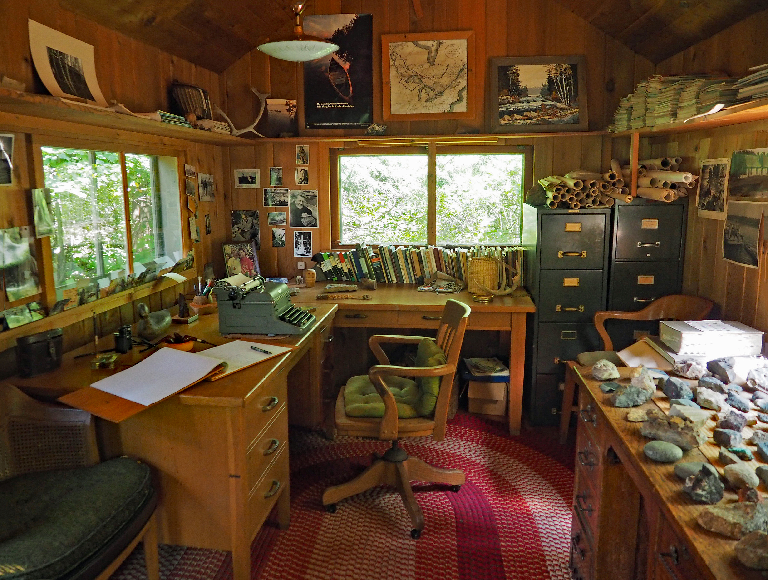 Interior, Sigurd F. Olson Writing Shack, 106 E Wilson St, Ely, Minnesota, USA. View looking east.